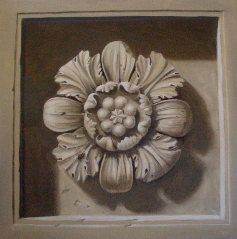 Grisaille van stucornament, grisaille of stucco ornament